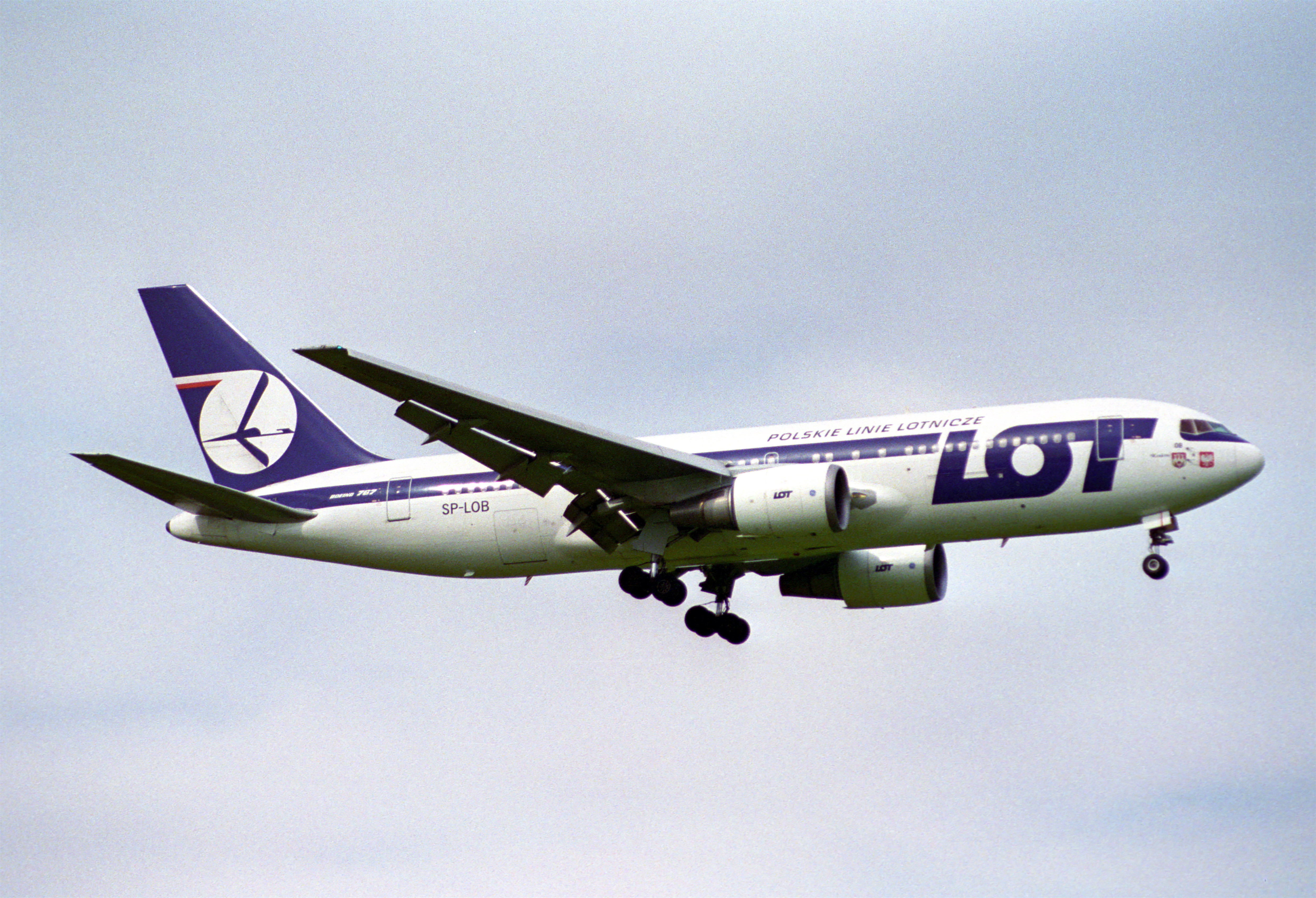 LOT Polish Airlines Boeing 767-200; SP-LOB@ZRH;11.05.1997